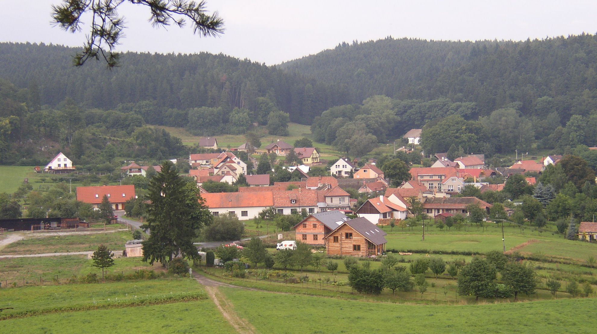 Village of Holštejn, Czech Republic, as seen from Holštejn Castle.